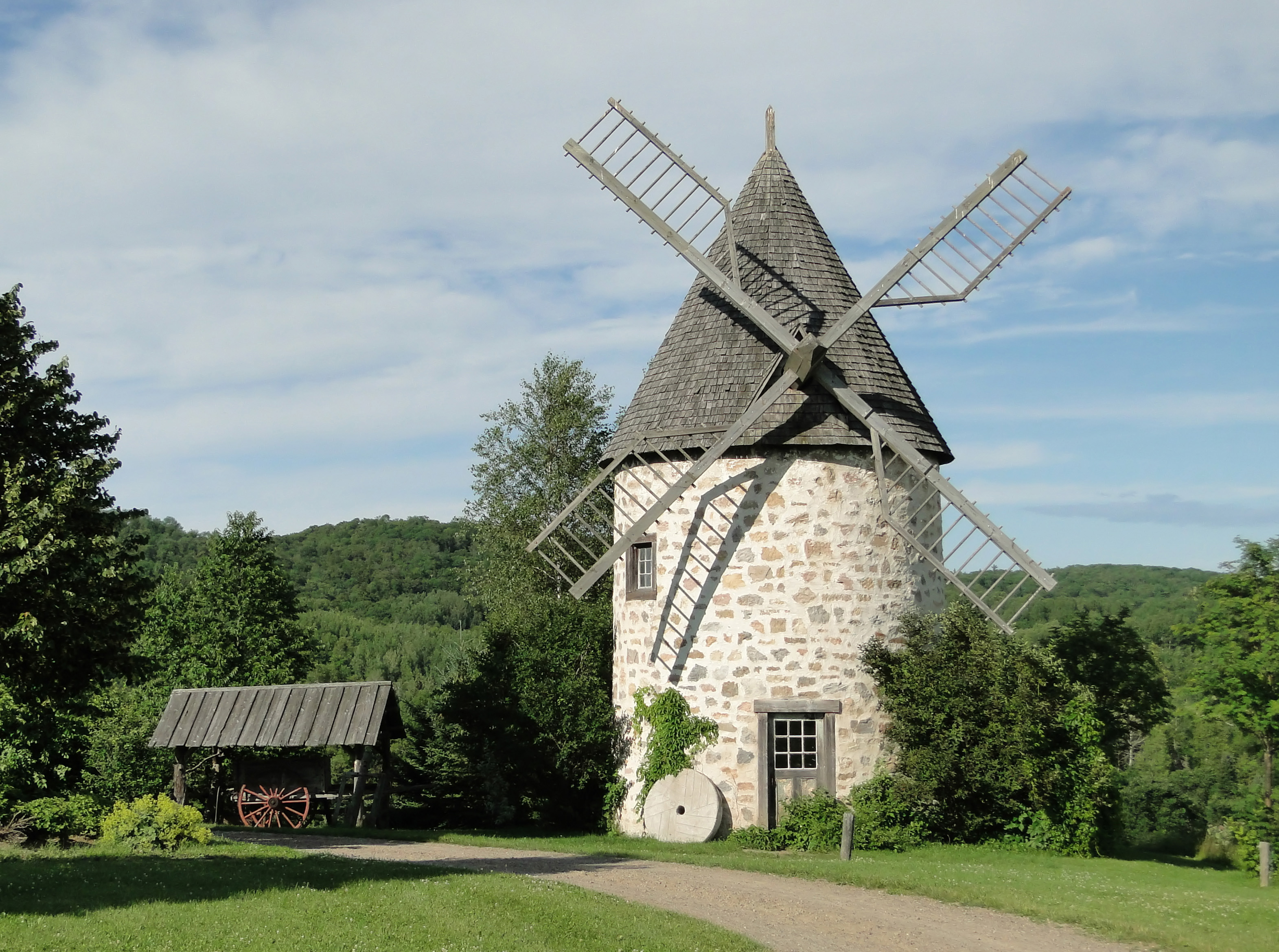 Windmill used for the miniseries Marguerite Volant near Saint-Paulin, province of Quebec, Canada